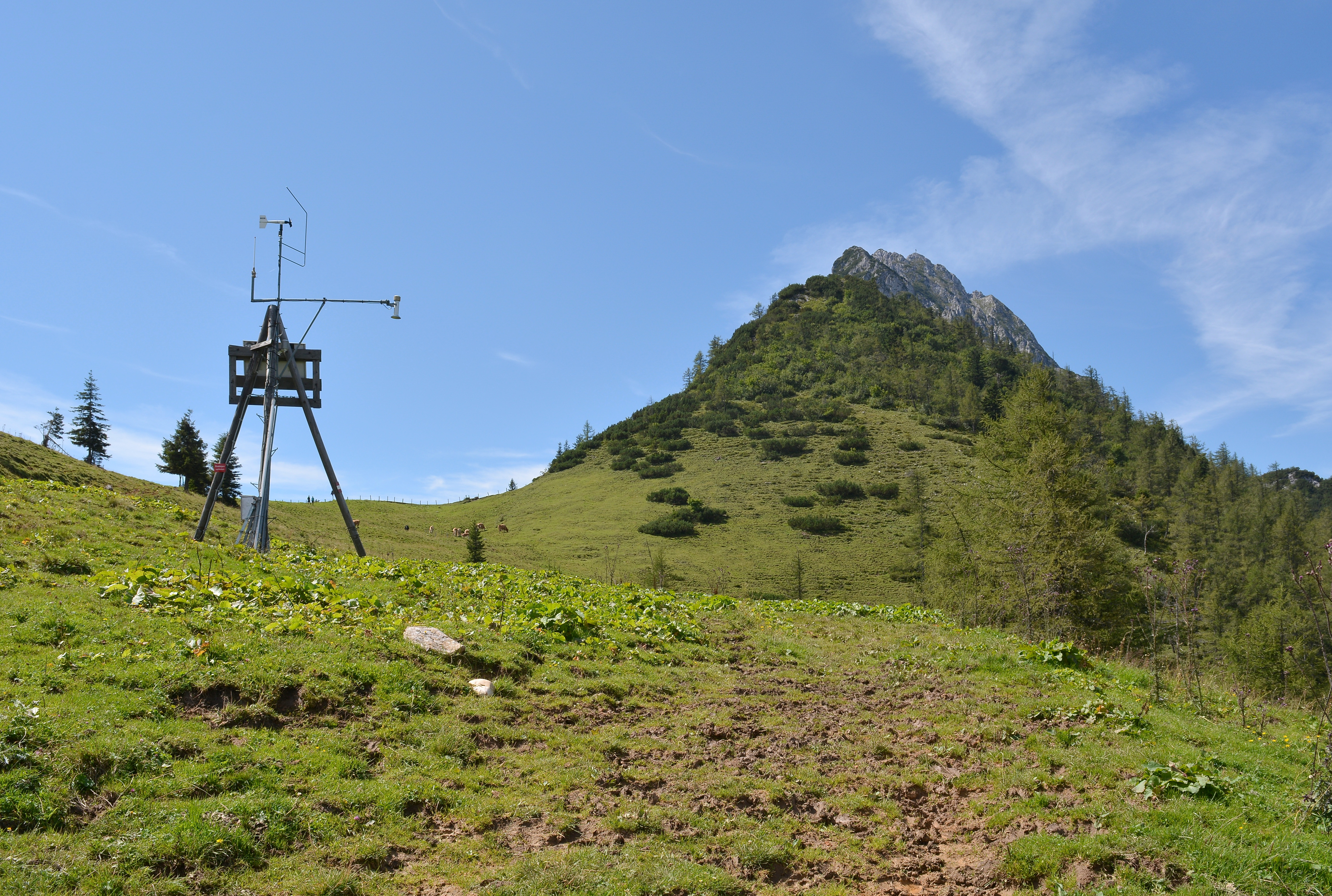 The Arlingalm is in the north of Arlingsattel in Upper Austria. The summit at the right is the Bosruck (1992 m).